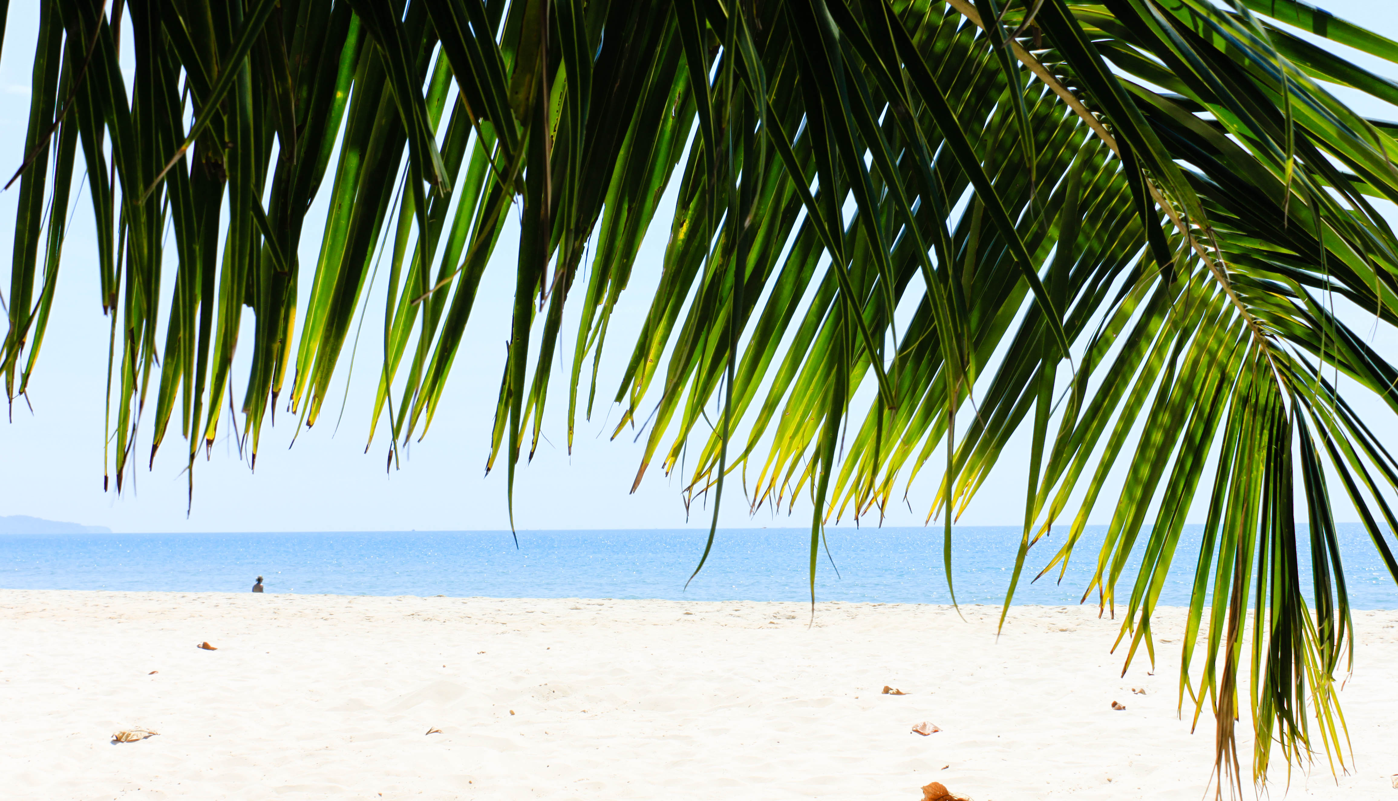 Beautiful beach in Cambodia.